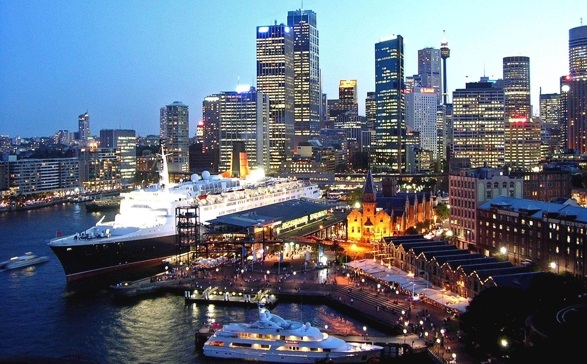 Queen Elizabeth II (QE2) in Sydney Harbour